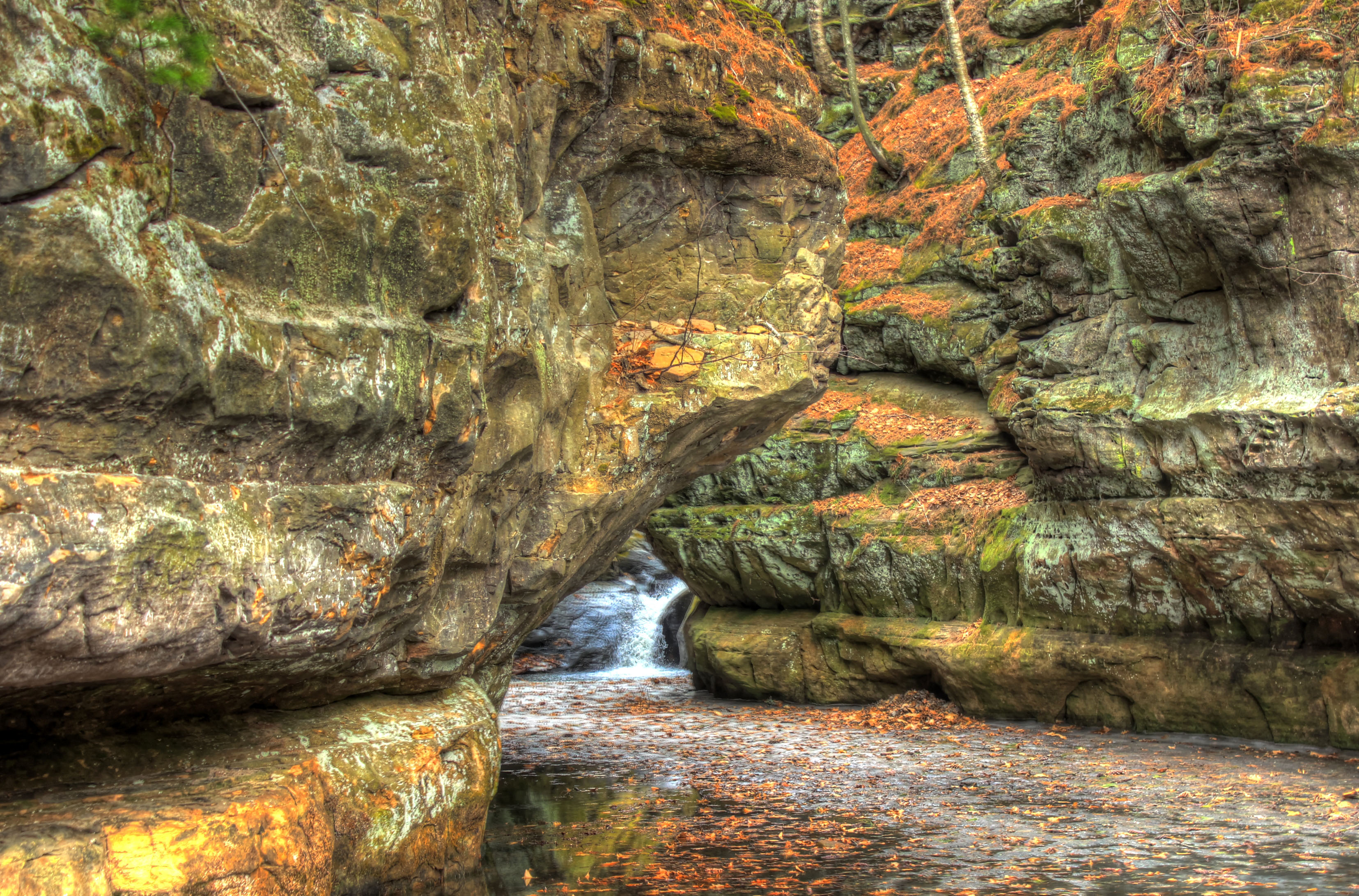 Scenic gorge at Pewit's Nest